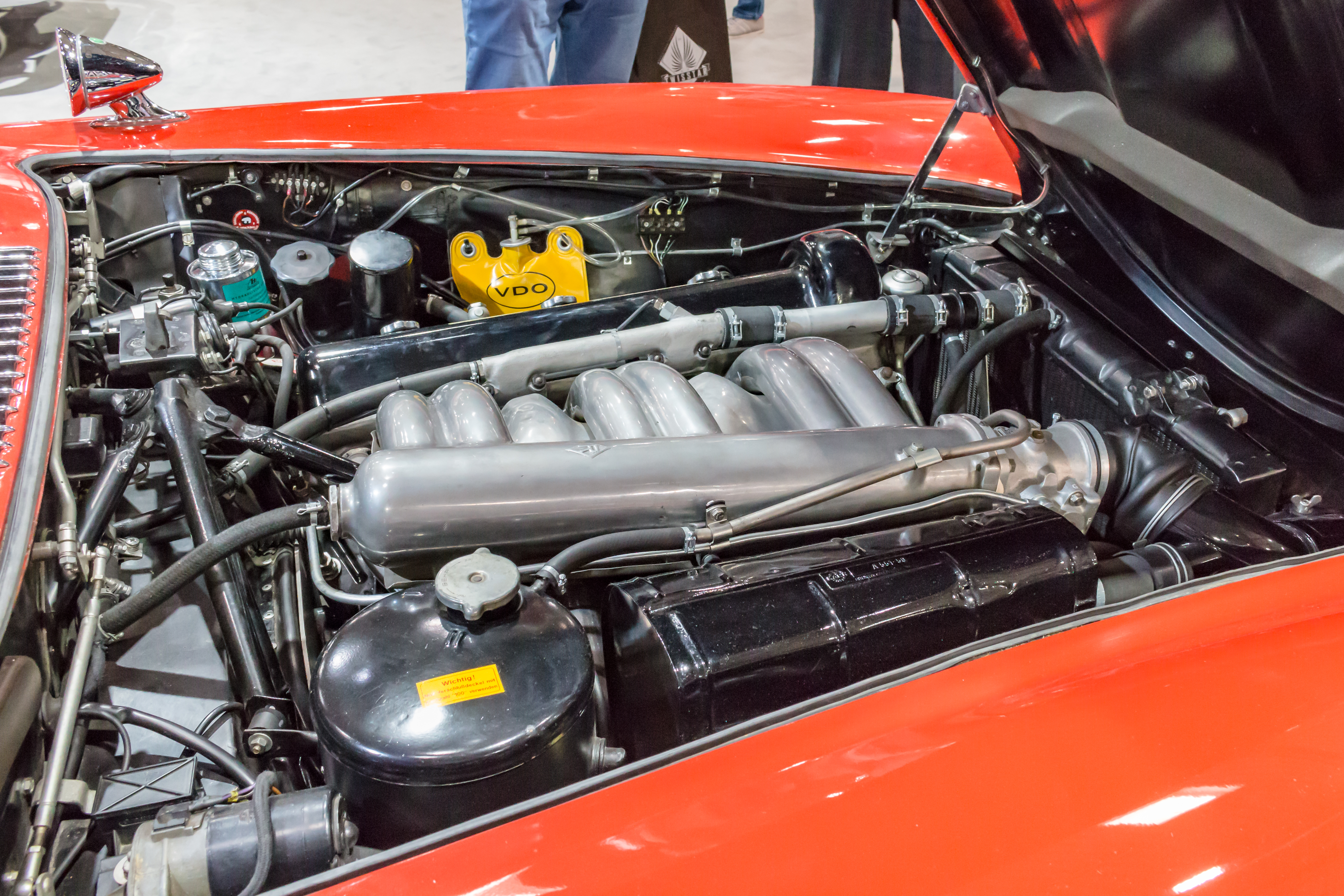 Mercedes-Benz, Techno-Classica 2018, Essen